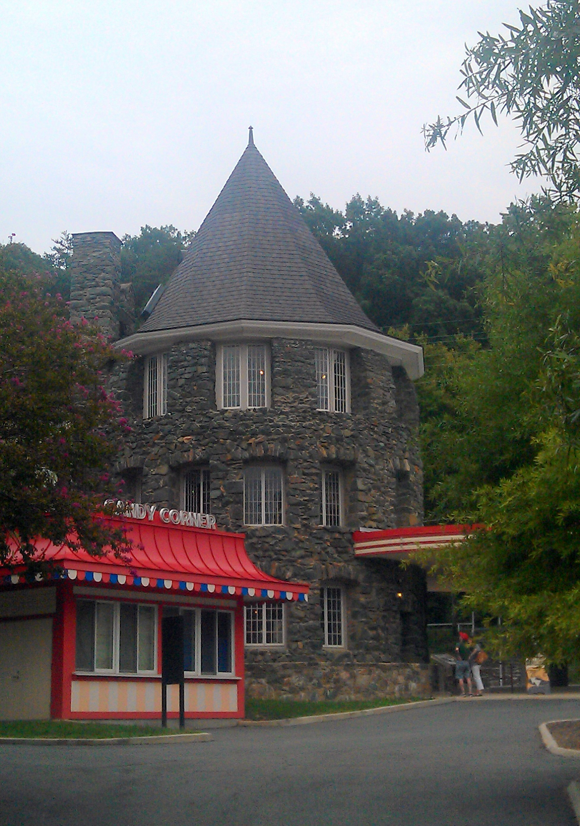 Chautauqua Tower, Glen Echo Park, September 2011